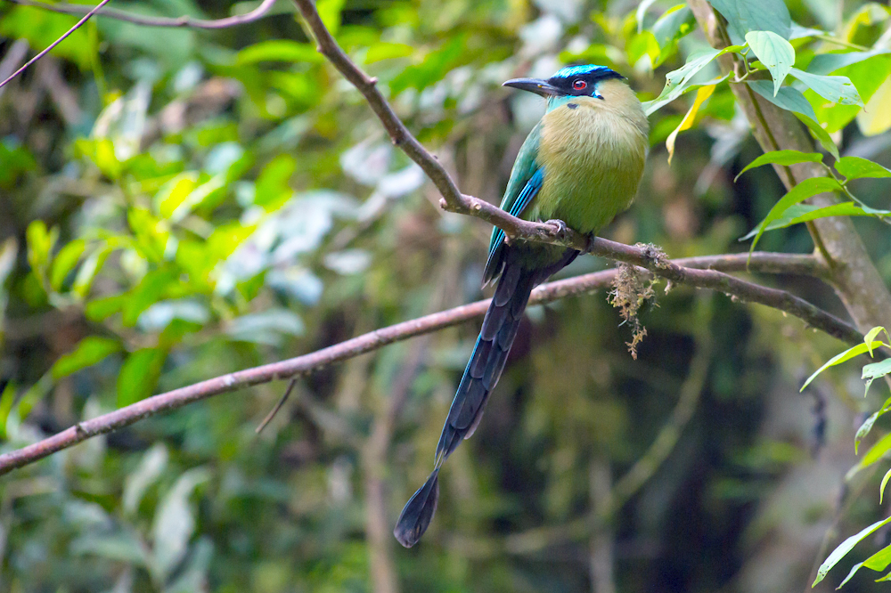 Momotus aequatorialis (Andean Motmot), Puno, Peru